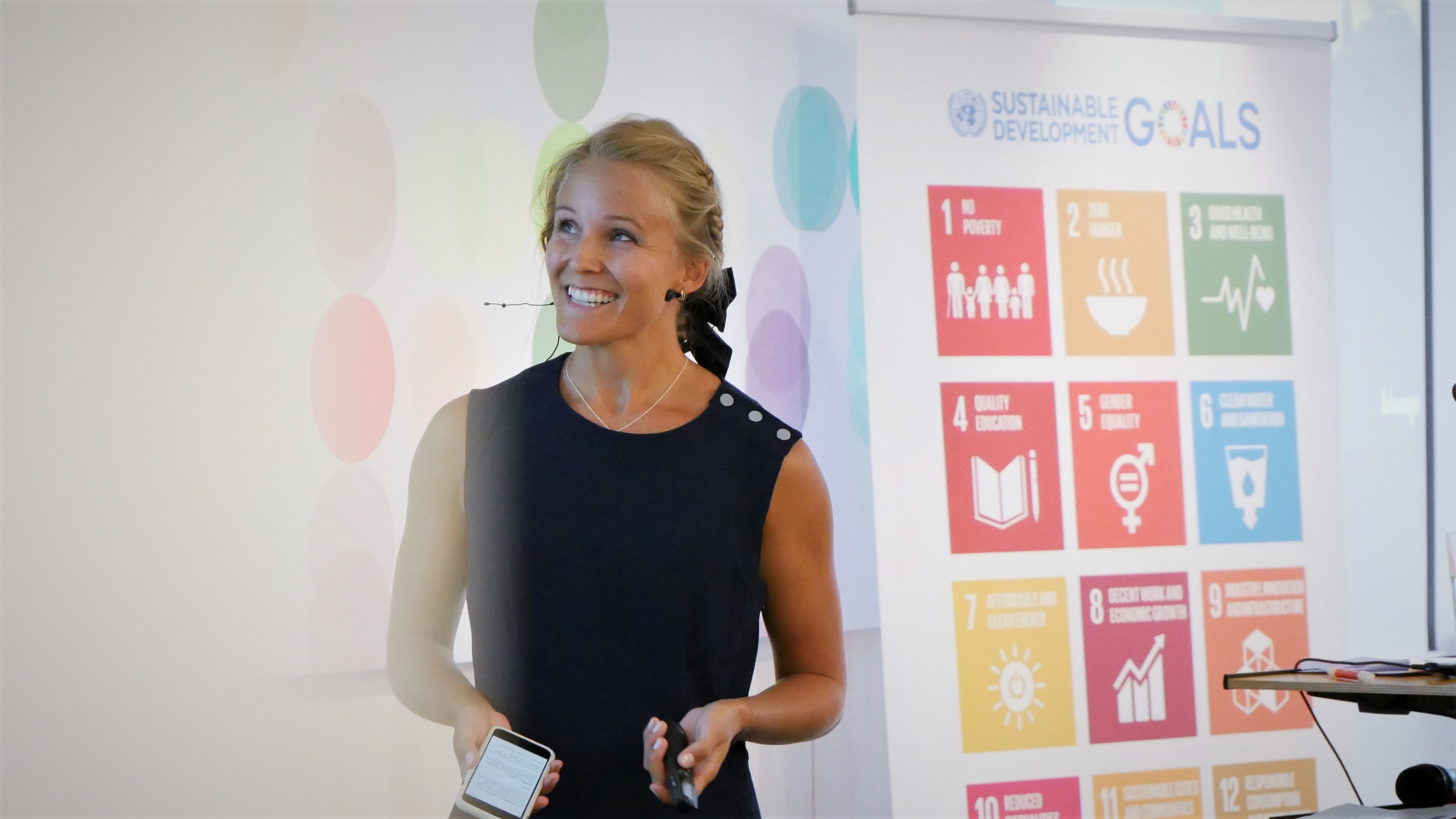 Christine Spiten talking at an event, part of the mission of Norway to the EU.